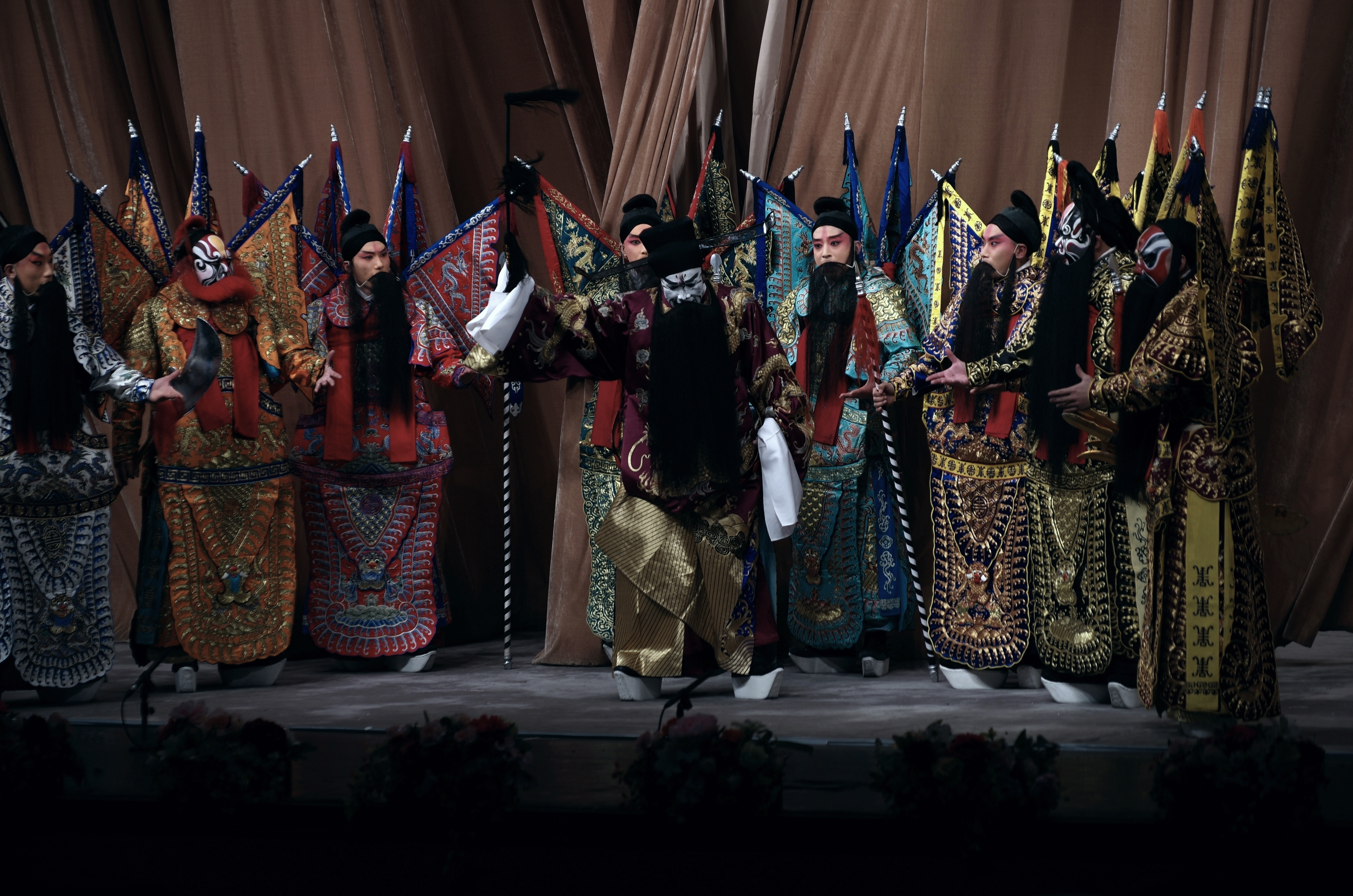 A Peking opera performance in Tianchan Theatre by Shanghai Jingju Theatre Company.